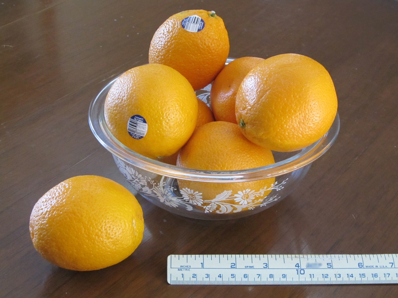 Midknight oranges are round, frequently oblong in shape.